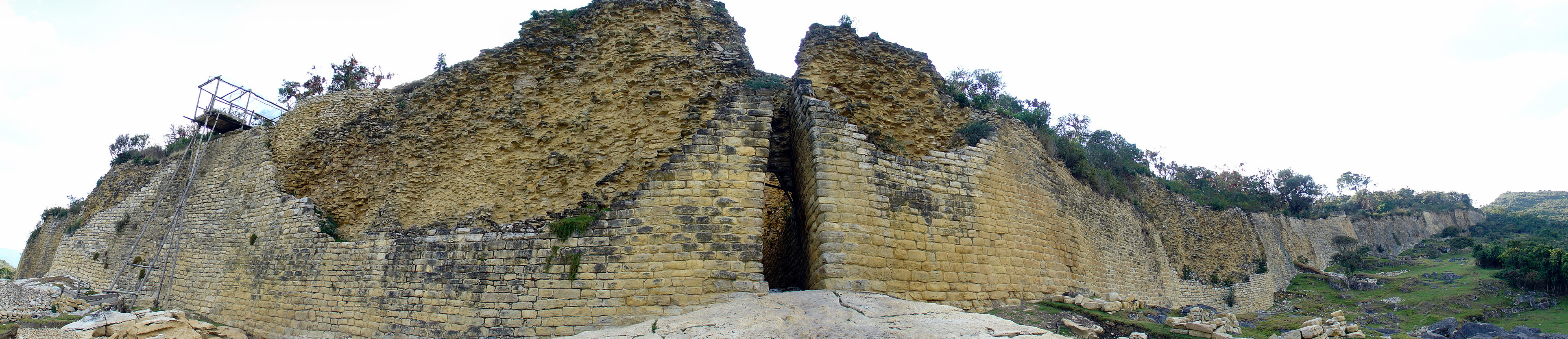 Walls and main entrance of Kuelap forteress, Peru